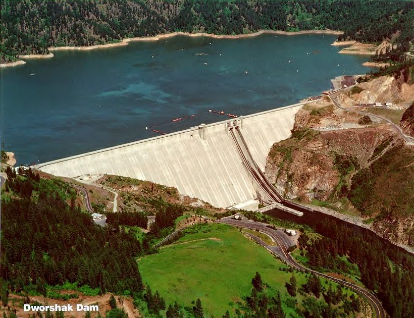 Dworshak Dam, a hydroelectric, concrete gravity dam in Clearwater County, Idaho, on the North Fork of the Clearwater River.